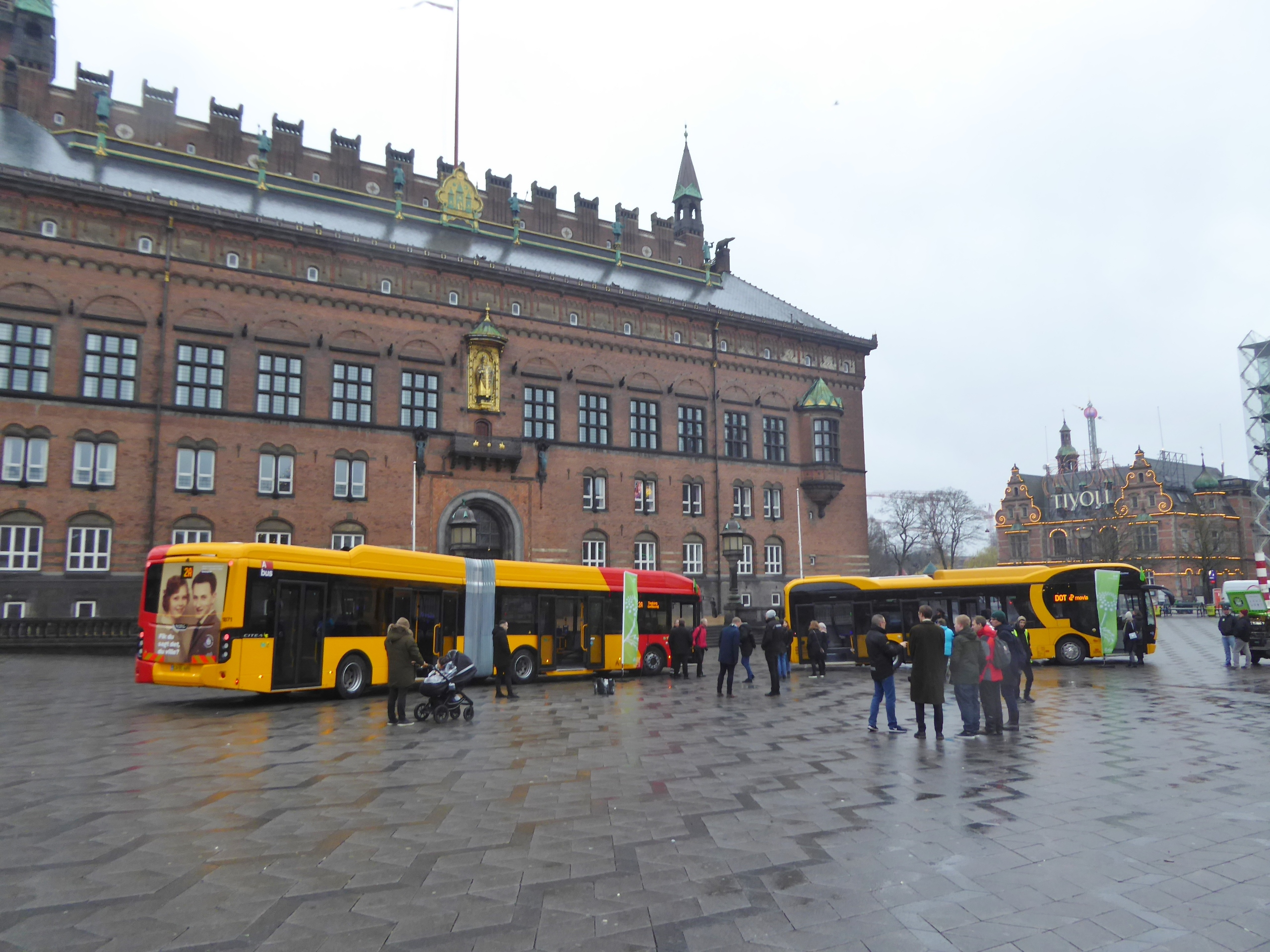 The Copenhagen bus line 2A and 18 got electric buses at 8 December 2019. It was celebrated at Rådhuspladsen. A VDL Citea SLFA-180 articulated bus for line 2A and a BYD K9 bus for line 18 at the town hall of Copenhagen.